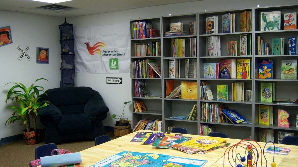 Fraser Valley Elementary School Library